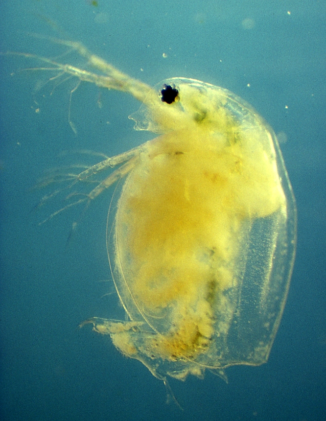 Female Daphnia magna infected with the bacterial parasite Pasteuria ramosa. The yellow mass in the body of the host are the endospores of the parasites.